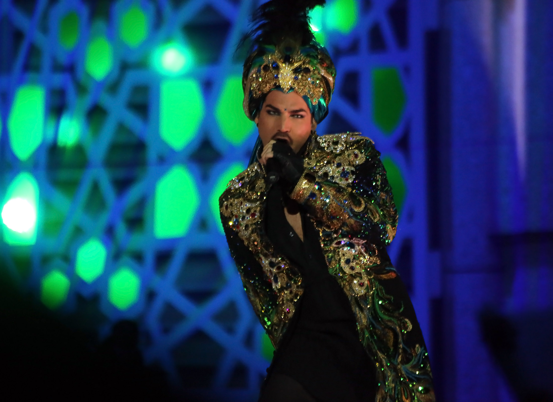 Adam Lambert, opening show of Life Ball 2013 at the city hall of Vienna, Vienna, Austria.